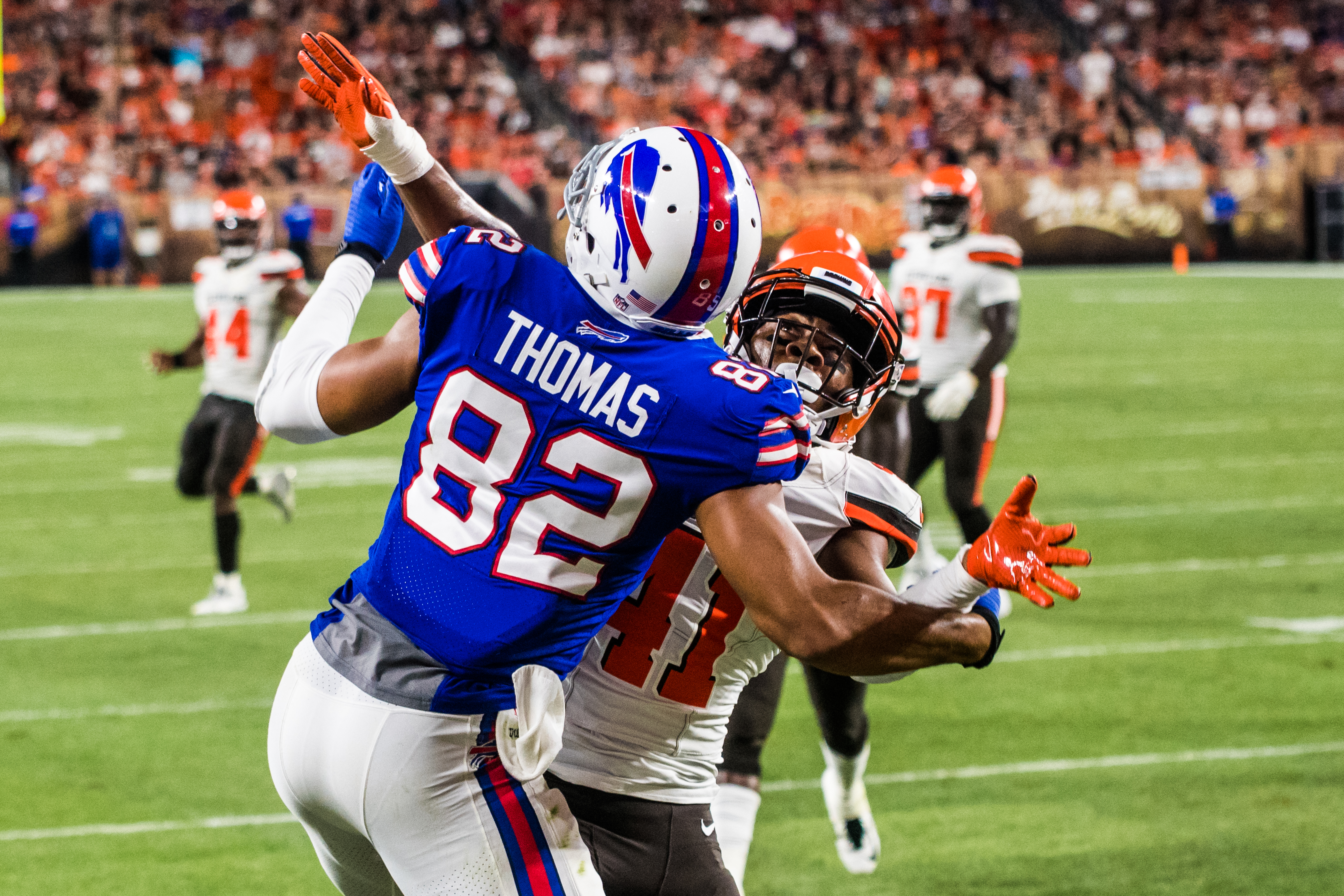 Cleveland Browns vs. Buffalo Bills